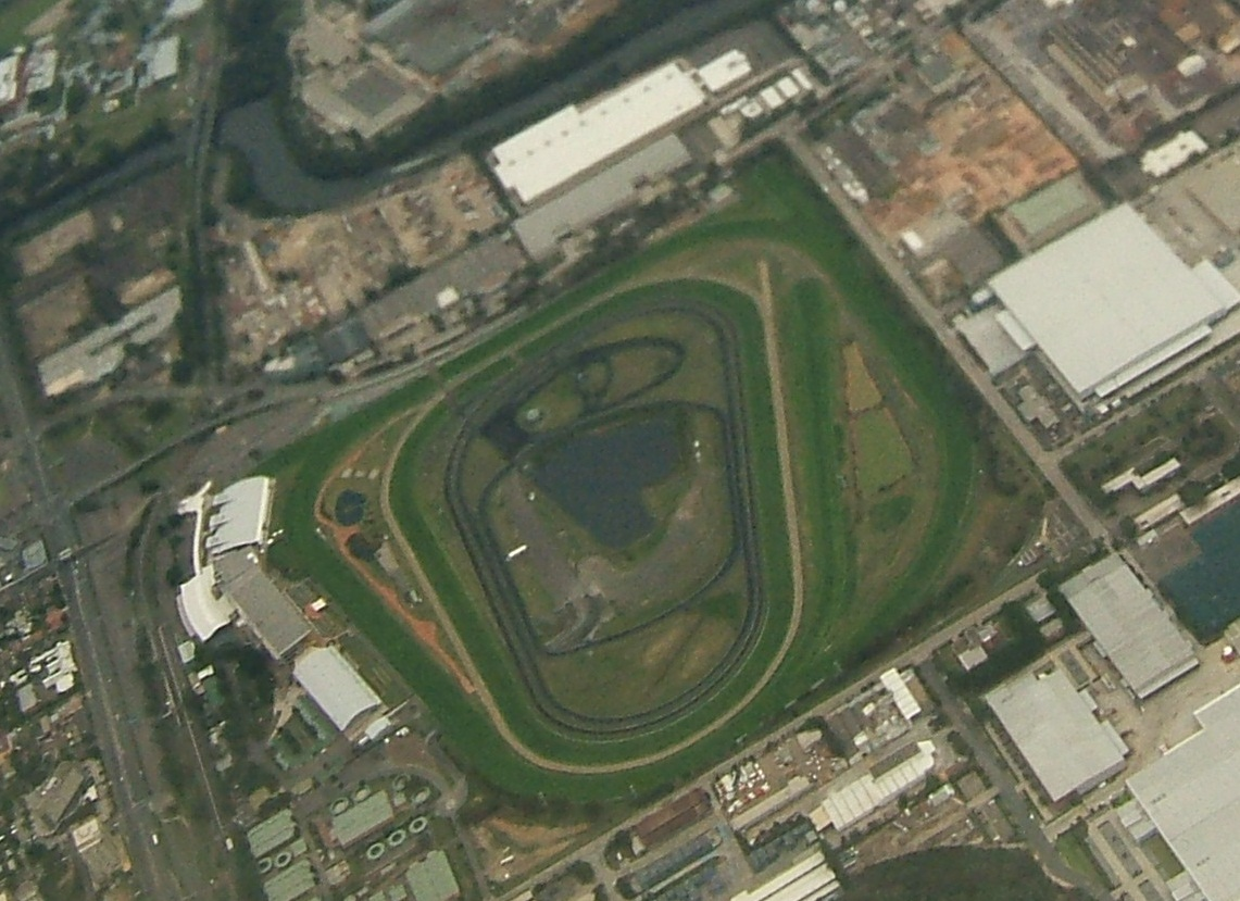 Aerial view of the said location in Sydney